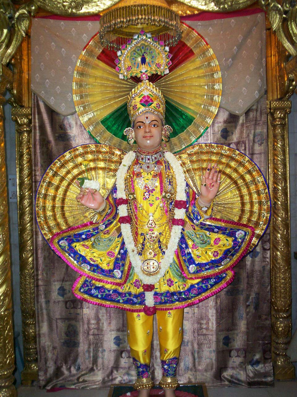 Image at Kalupur Temple